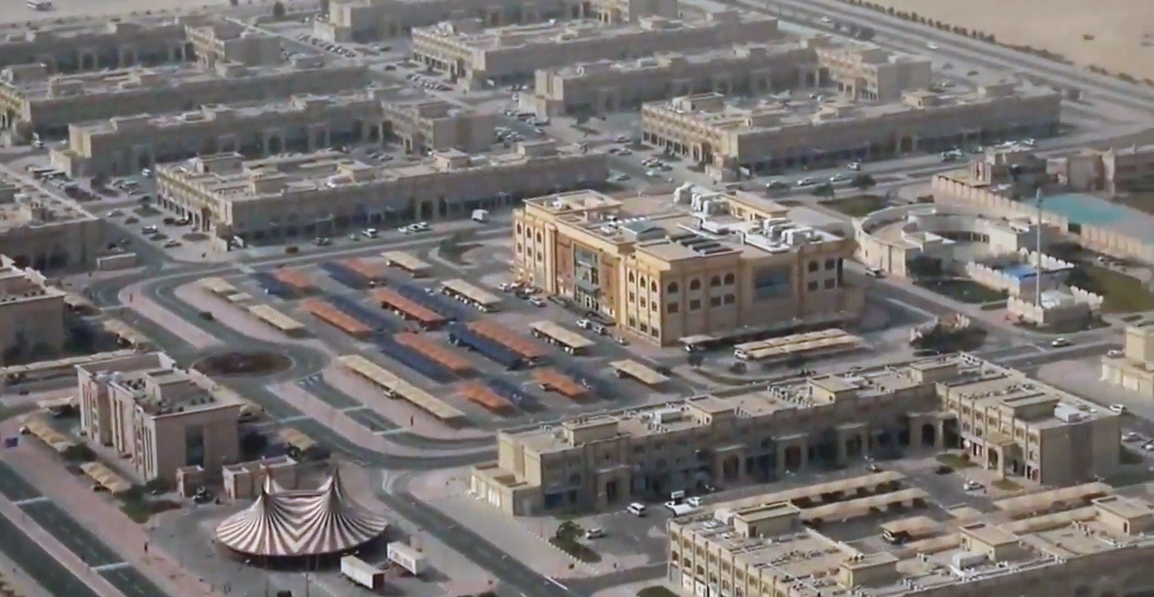 Aerial view of Umm Besher in Al Wakrah municipality, Qatar, with CentrePoint Mall in centre.